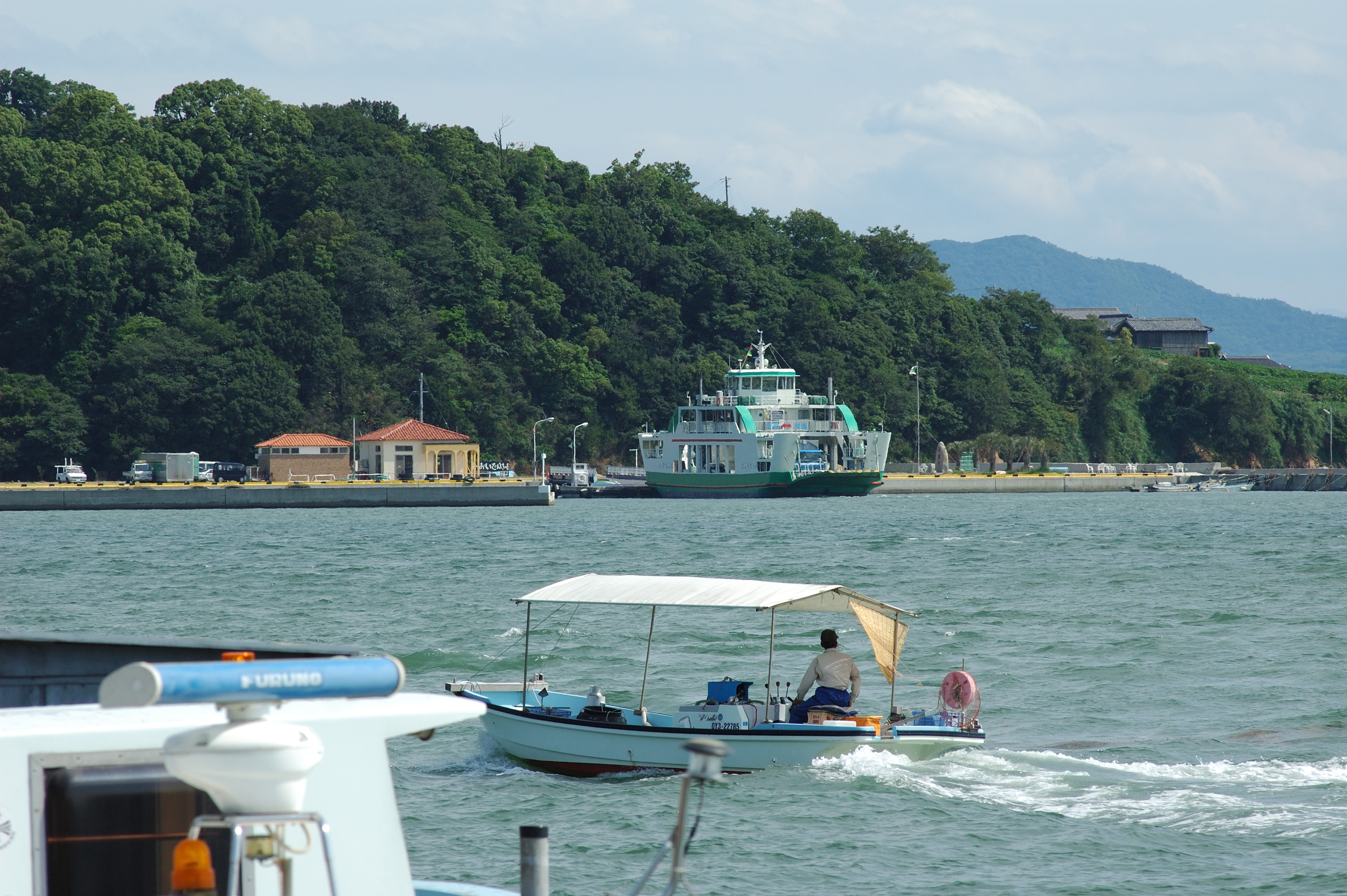 Maejima ferry,it sails between Ushimado port and Maejima in Setouchi, Okayama, Japan.Ferry sails Maeshima.